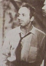 Mario Giusti- actor